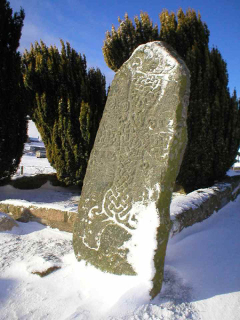 The Migvie Stone. A Christian carved stone with Pictish symbols visible.